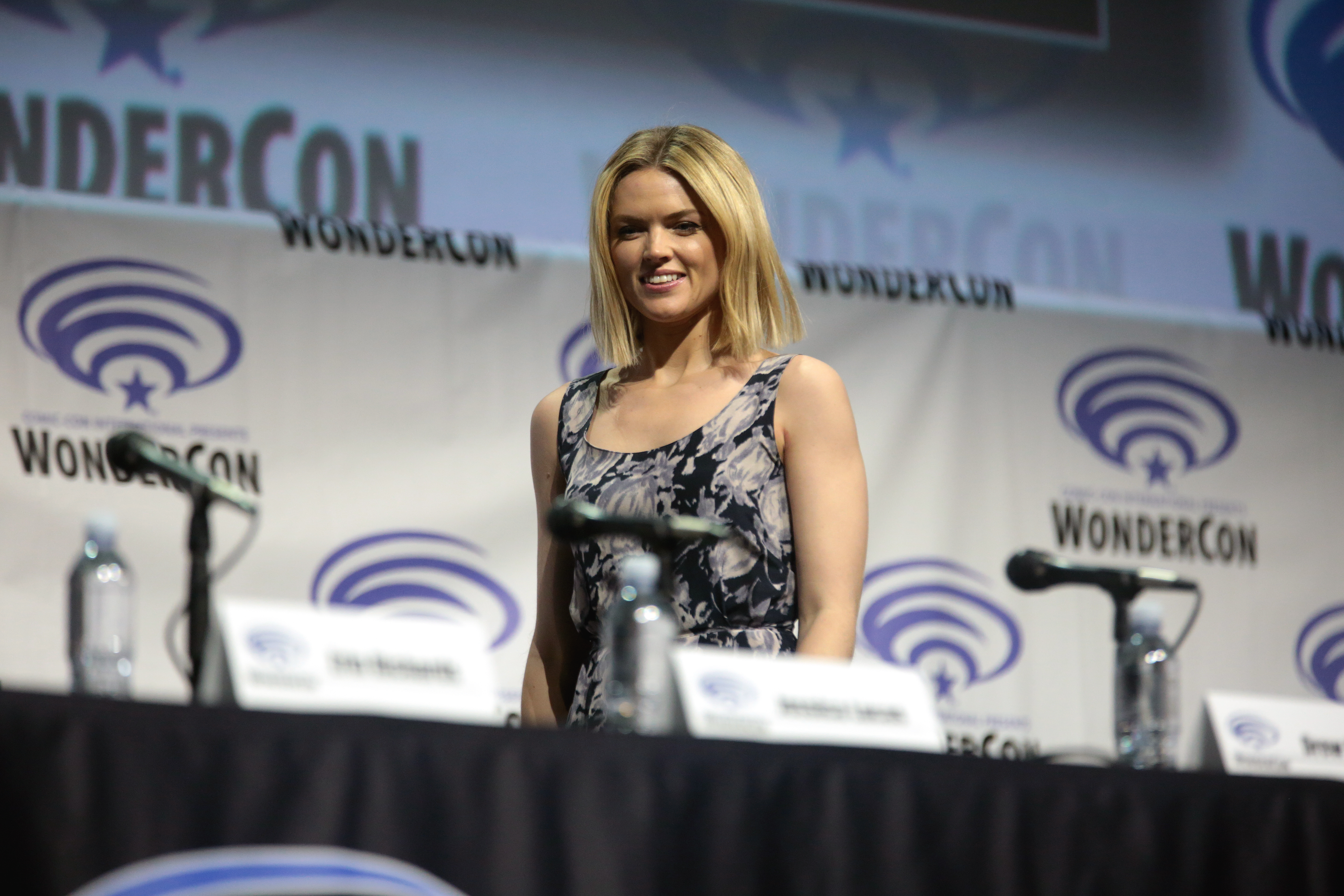 Erin Richards speaking at the 2017 WonderCon, for "Gotham", at the Anaheim Convention Center in Anaheim, California.